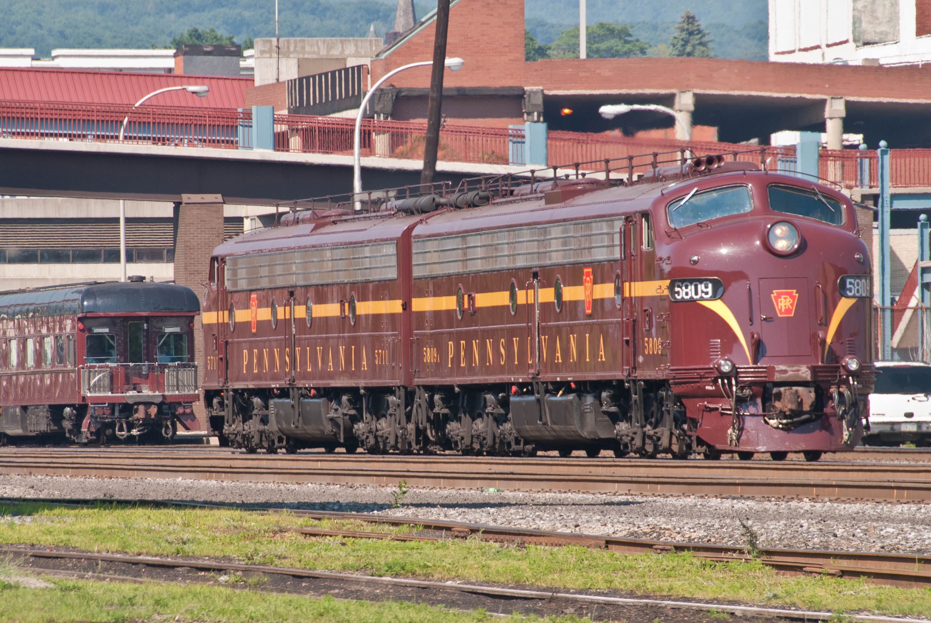 Former PRR E8s 5809 and 5711 wait near the special excursion train in July 2007.